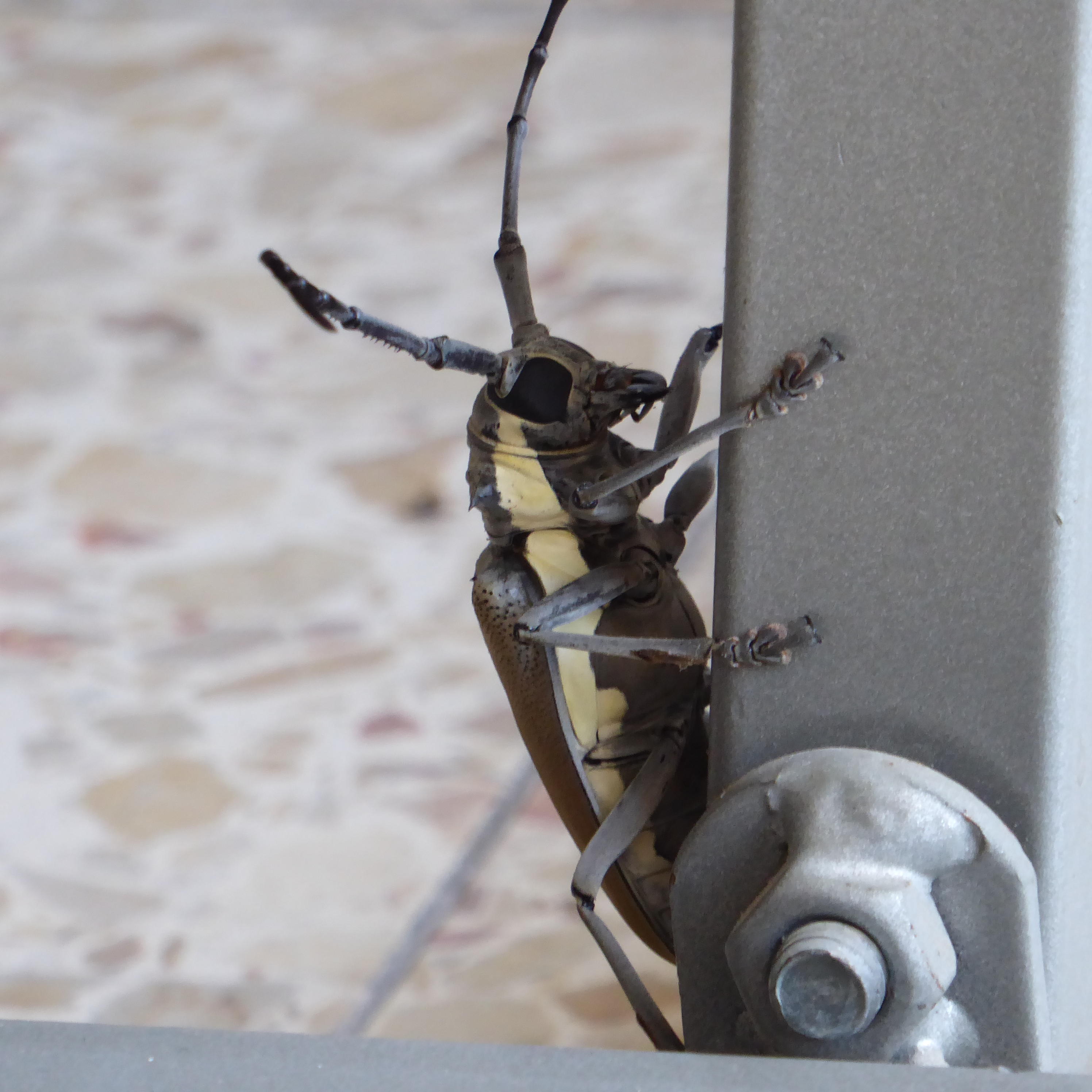 Batocera rufomaculata